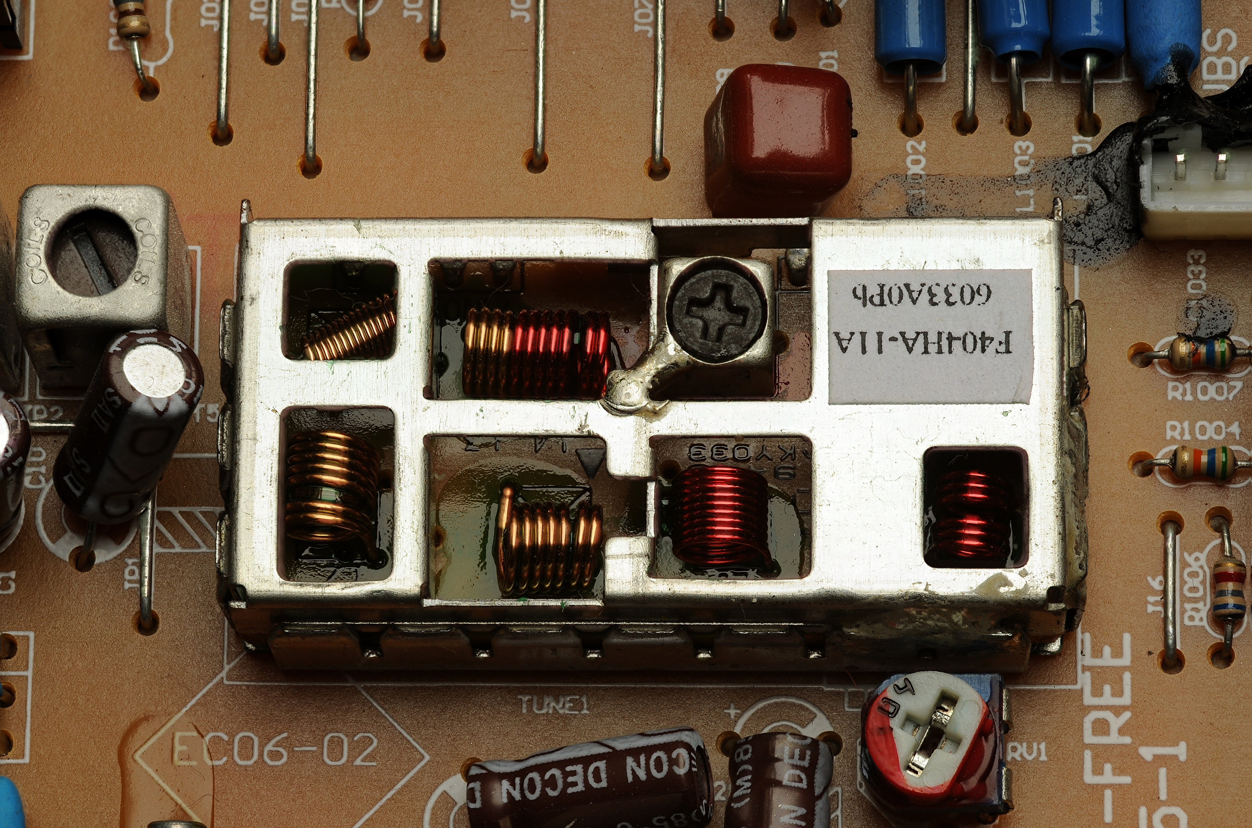 This photograph was taken with a Nikon D300 This image was created with CombineZP ( It was created out of 15 single images.). Focus stacking of 15 pictures (using CombineZP).Composants électroniques (focus stacking). Image composée de 15 photos assemblées avec CombineZP.